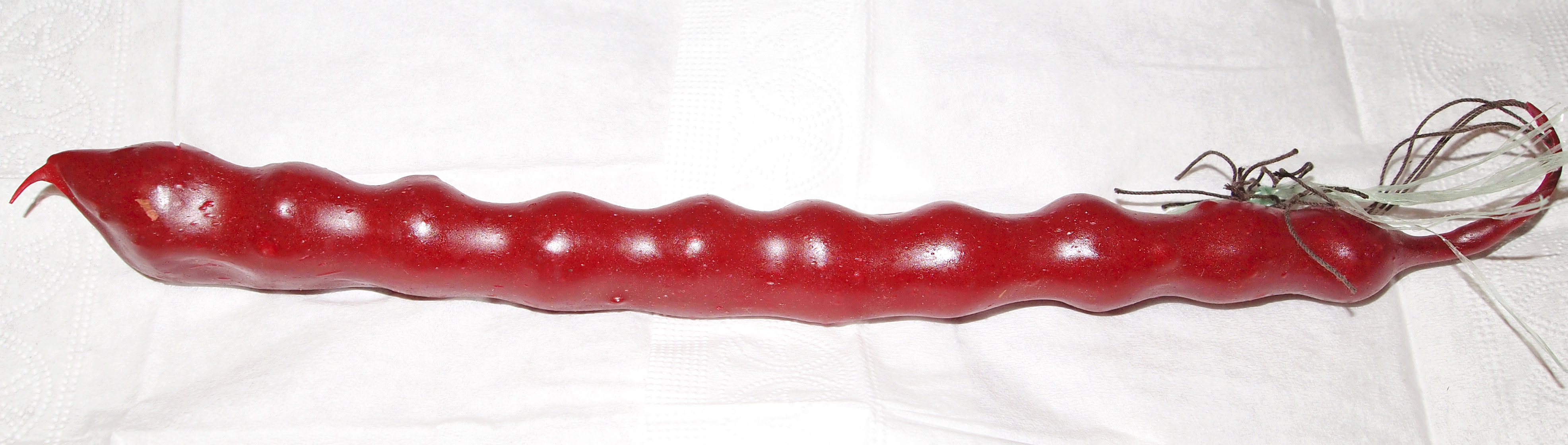 Sweet red stick including nuts. From the market place of Shcholkine. This photograph was taken with a Olympus E-PL1.